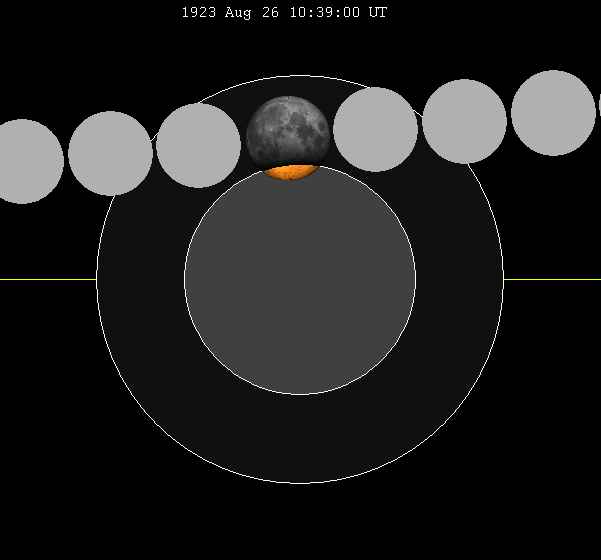 August 1923 lunar eclipse chart of moon's path through the earth's shadow. thumb